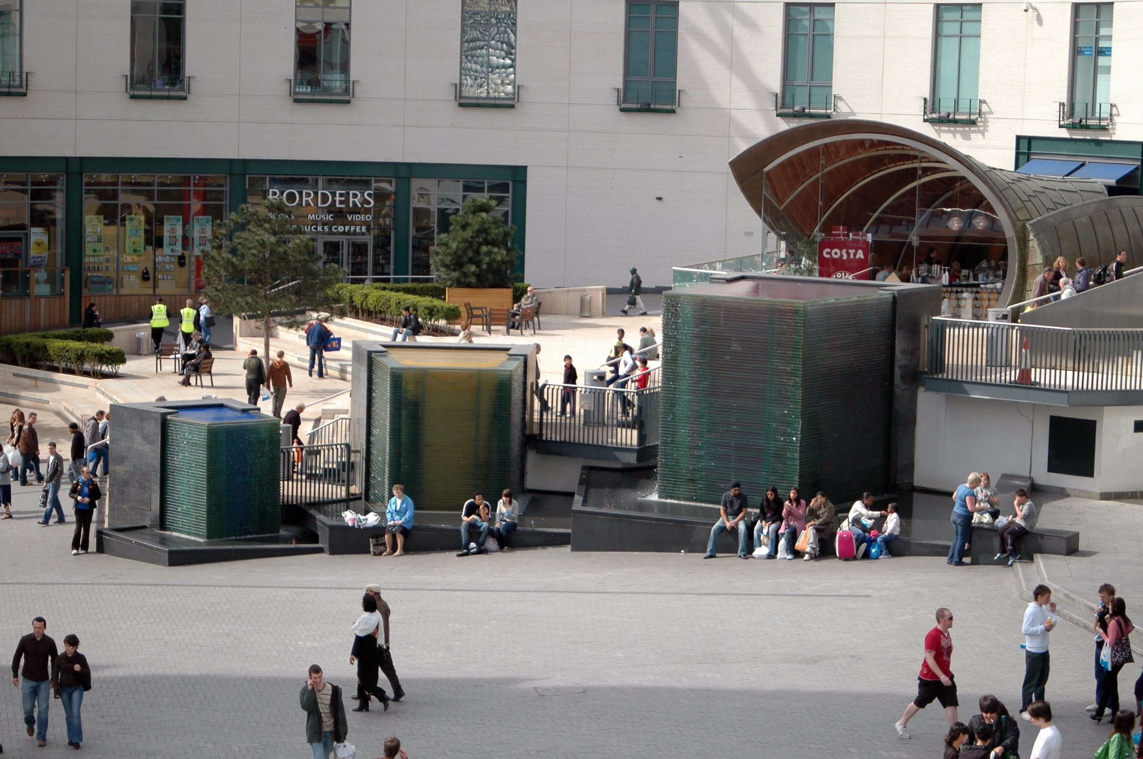 These are three fountains in the shape of cubes and the Spiral Cafe (to the right) in St Martin's Square in the Bullring Shopping Centre, Birmingham